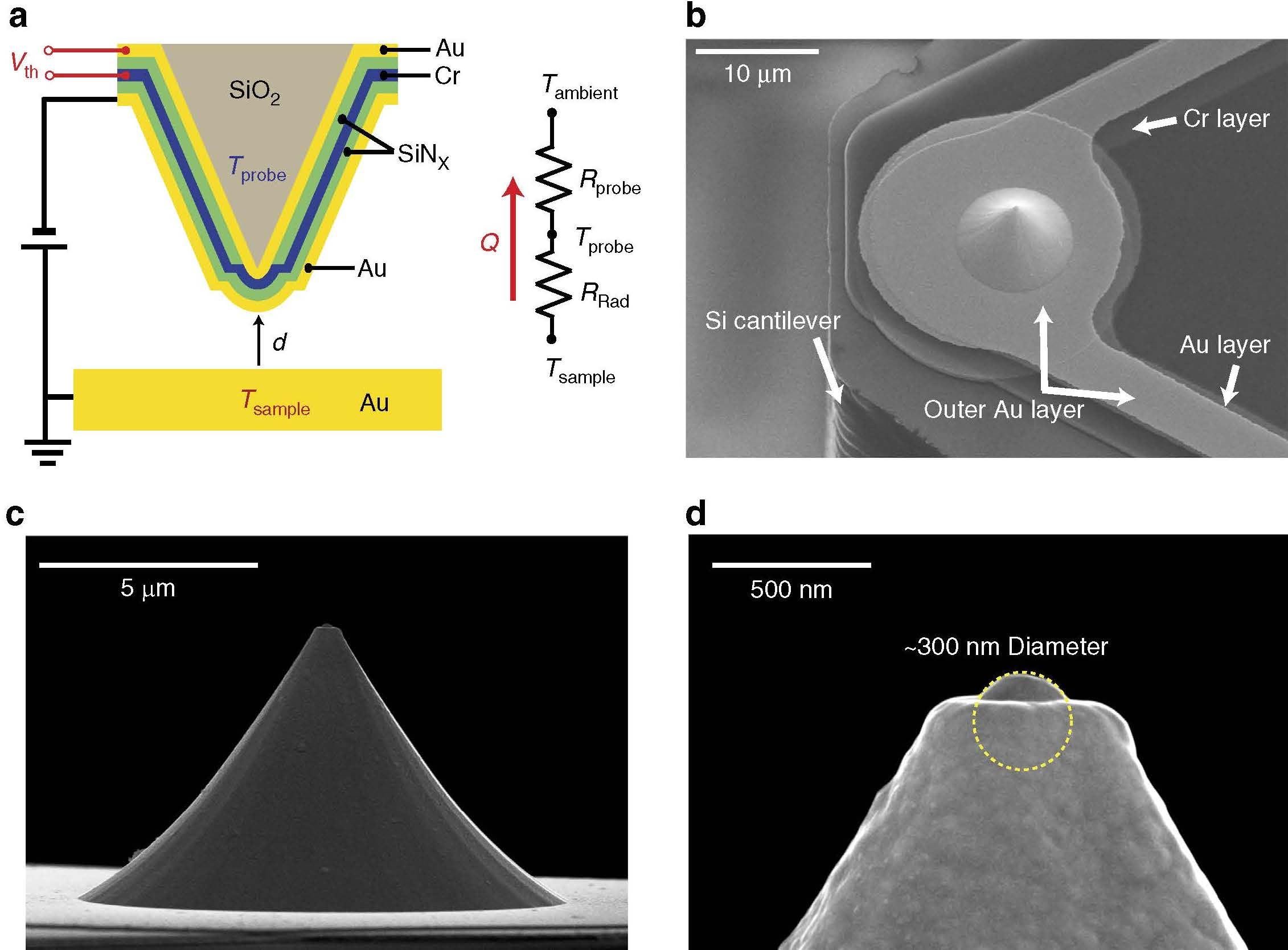 (a) Schematic of the experimental set-up, in which a Au-coated SThM probe (cross-sectional view) is brought into close proximity of a heated Au substrate. The tunnelling current across the nanogap is monitored by applying d.c. or a.c. voltages. Simultaneously, the thermoelectric voltage (Vth) generated by the Au–Cr thermocouple is recorded to monitor the temperature of the probe’s tip. The diagram on the right shows the thermal resistance network representing the heat flow from the substrate, through the nanogap, to the probe. (b) SEM image showing the top view of a SThM probe. (c,d) SEM images of the probe and its tip, which has a diameter of ∼300 nm.